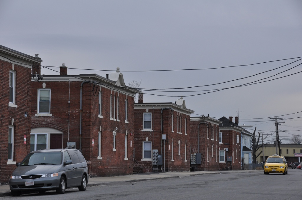 Market Street, showing the ends of the several rowhouses in the American Woolen Company Townhouses historic district of Lawrence, Massachusetts.